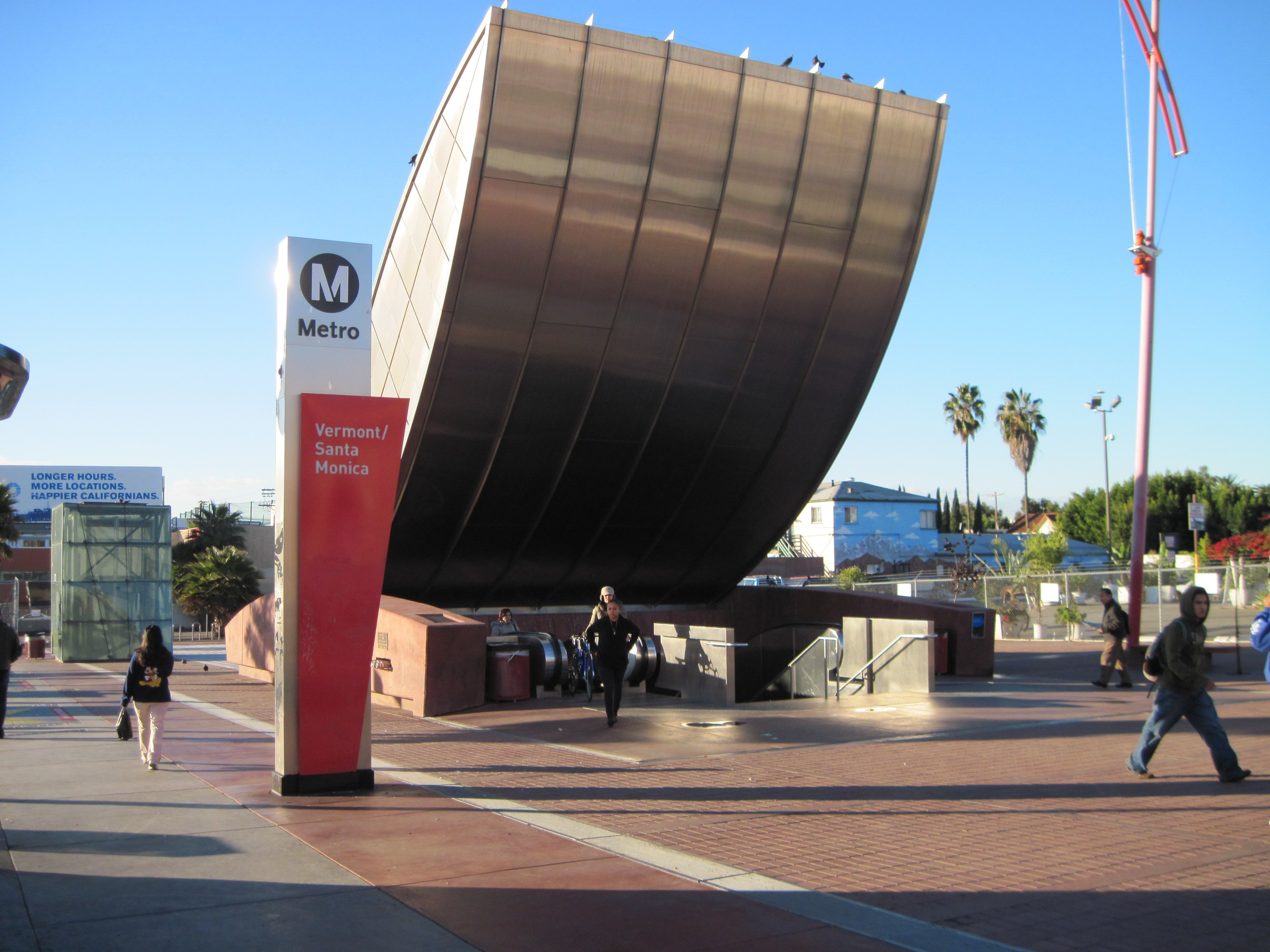 The northern entrance to the Los Angeles County Metropolitan Transportation Authority's Vermont/Santa Monica station, serving the Metro Red Line in Los Angeles, California, USA.